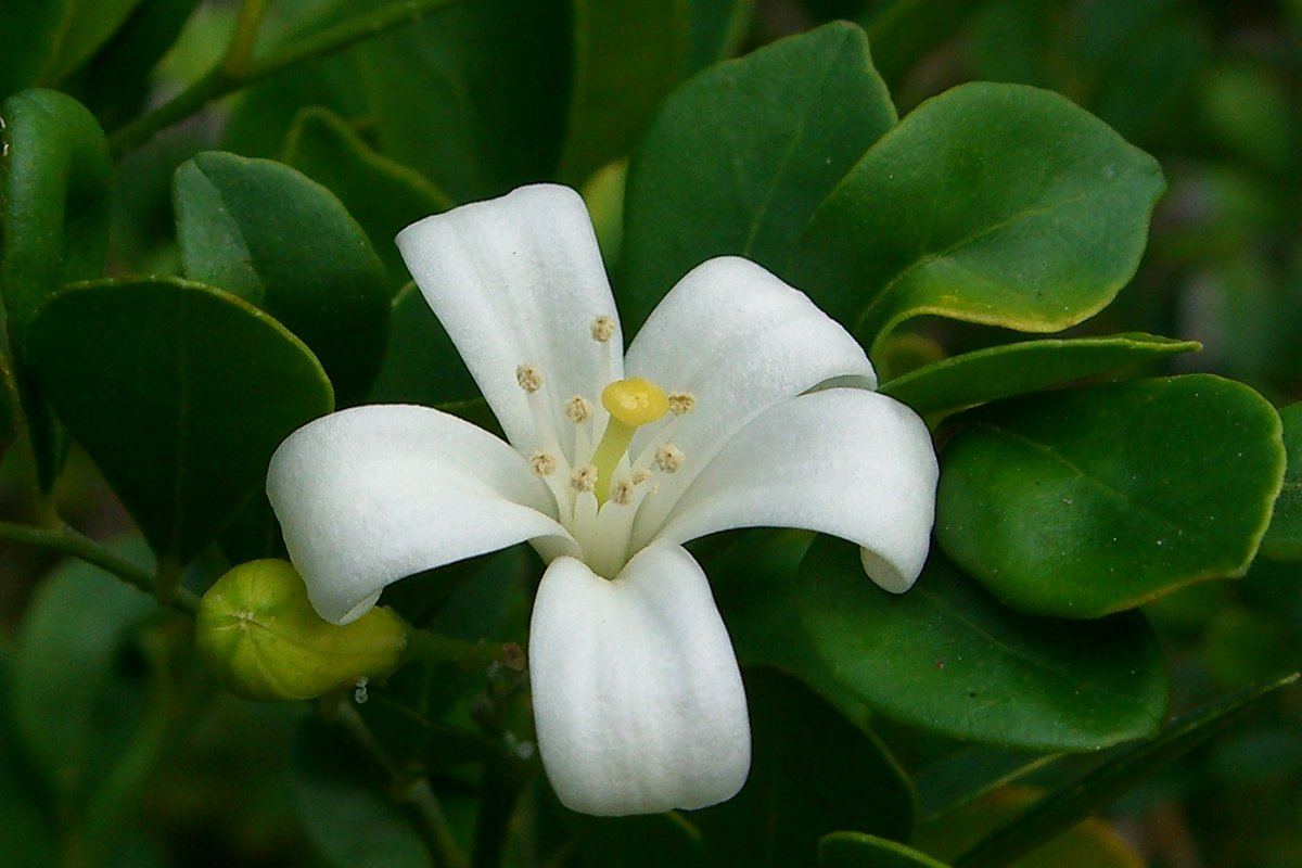 Scientific Name: Murraya paniculata (L.) Jack - Common Name: Orange Jessamine - Certainty: positive (notes) – Location: Florida Keys; Upper Keys; Buttonwood Bay – Date: 20070101